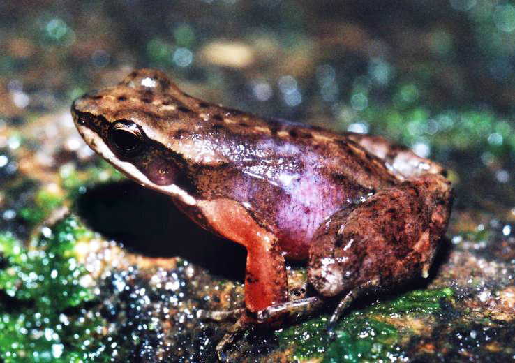 Crossodactylus sp.